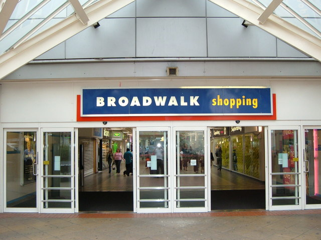 The Broadwalk Shopping Centre, Edgware The mall was opened during the 1990's and boasts an M&S and a Sainsbury's.